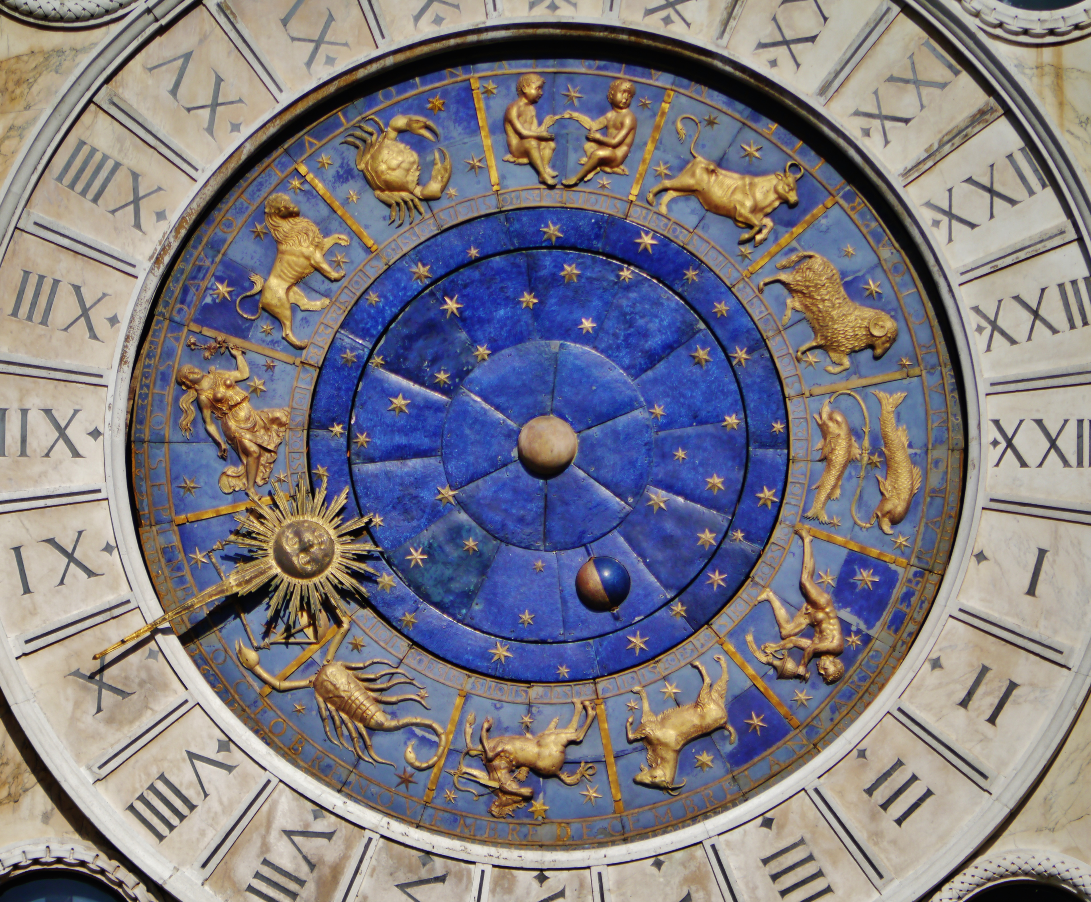 Clock & Zodiac of the Clock Tower on St. Mark's Square, Venice, Metropolitan City of Venice, Region of Veneto, Italy